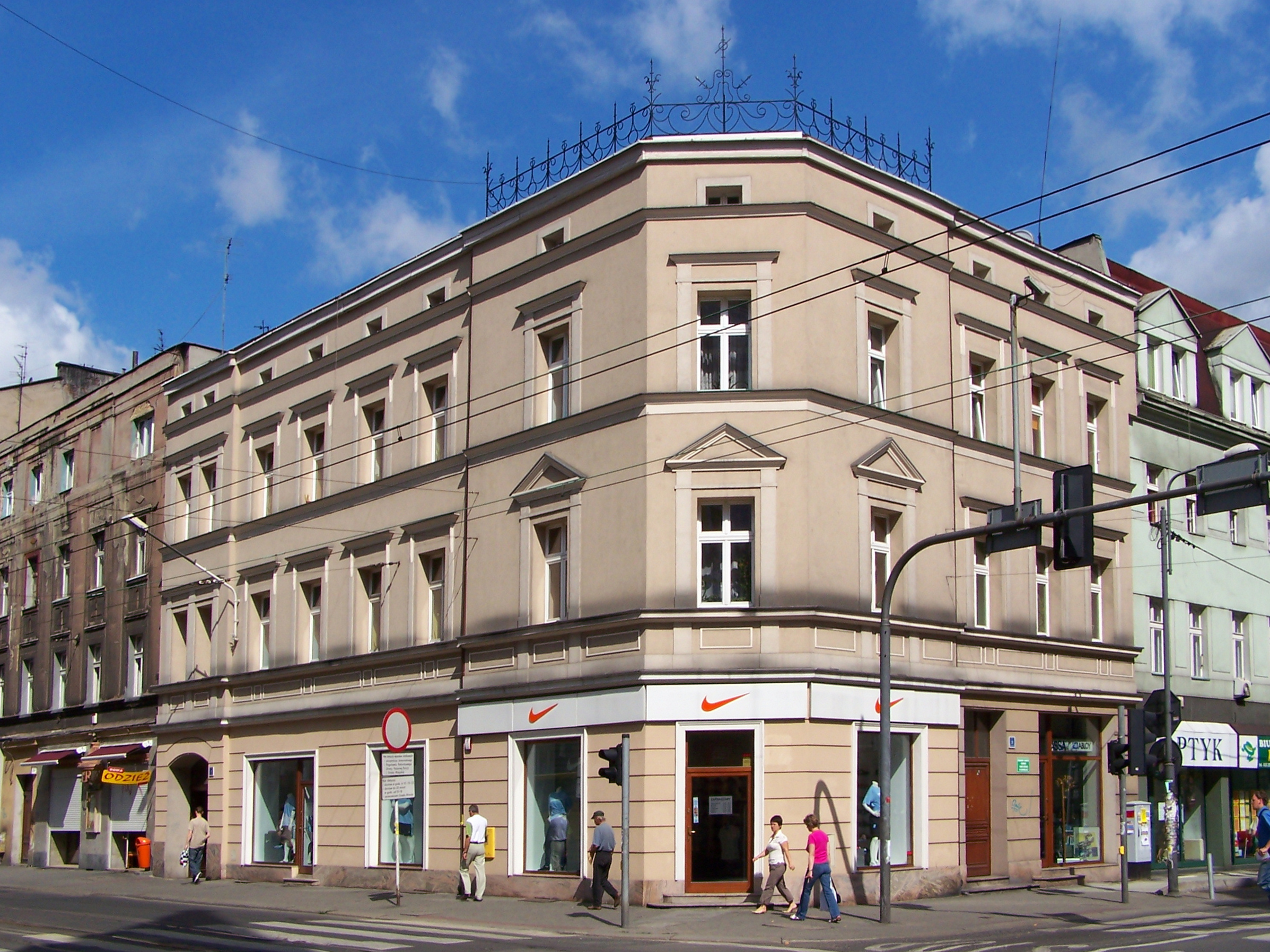 Tenement house on the Słowackiego Street 33 in Katowice (Poland).